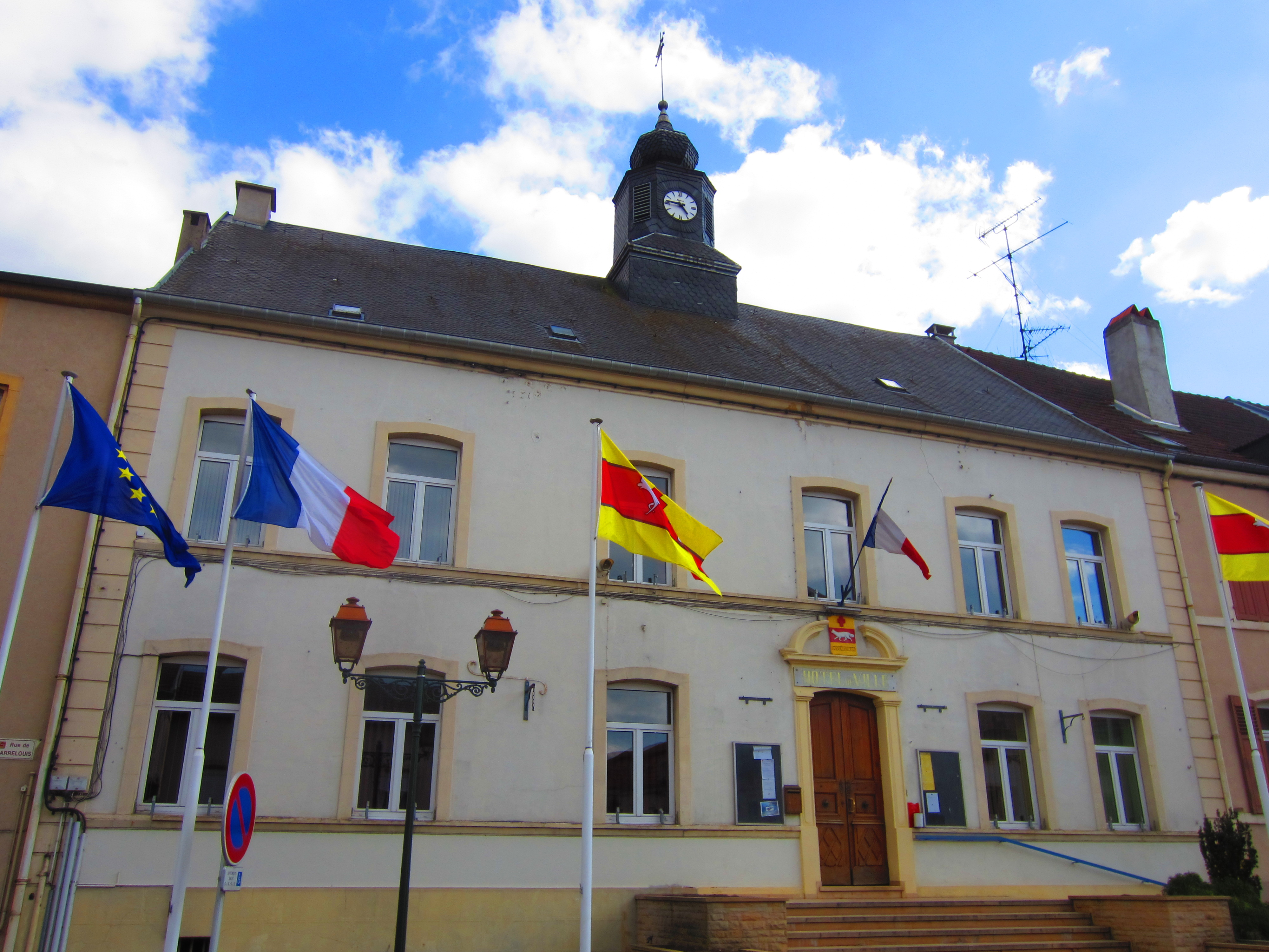 Bouzonville town council